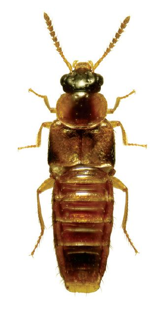 Dorsal view of Gyrophaena (G.) lobata (apical part of abdomen removed).